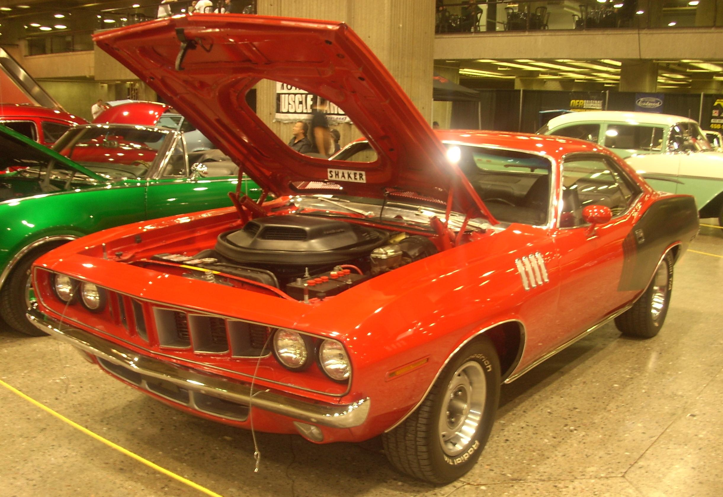 1971 Plymouth Barracuda photographed at Auto classique Montréal 2008.